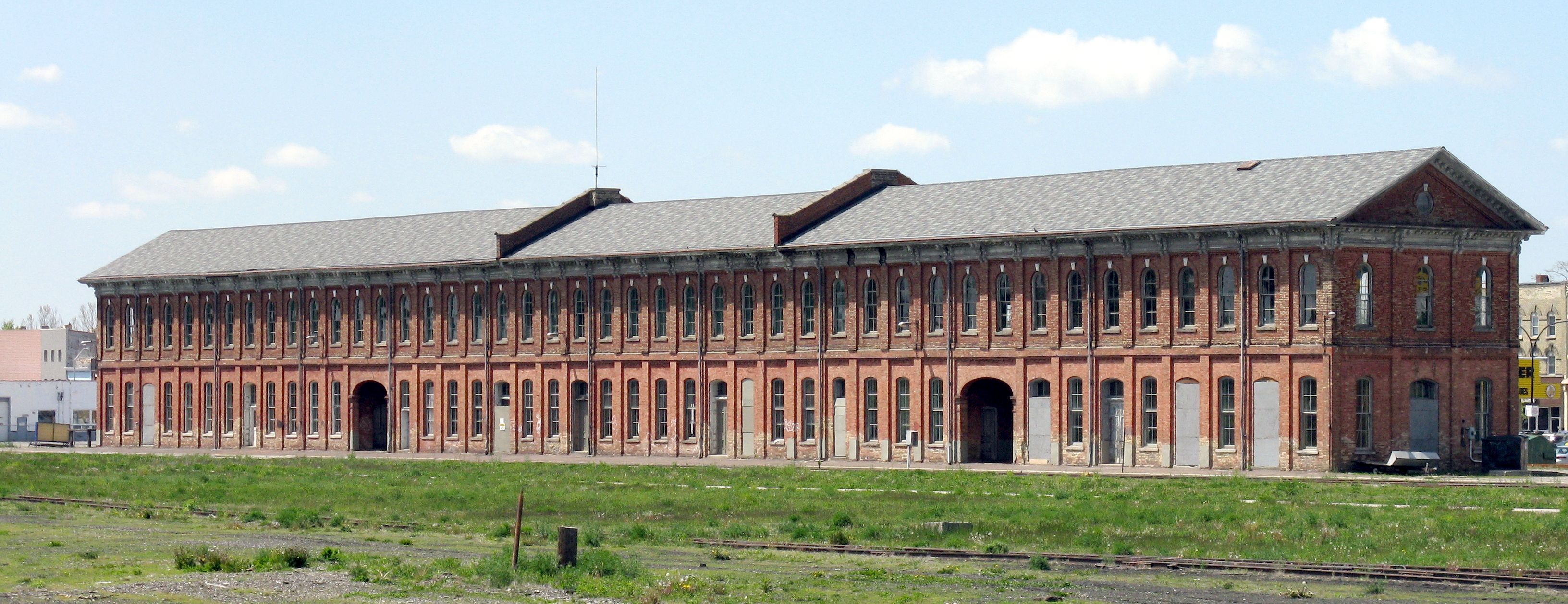 Former railway station in St. Thomas Ontario.